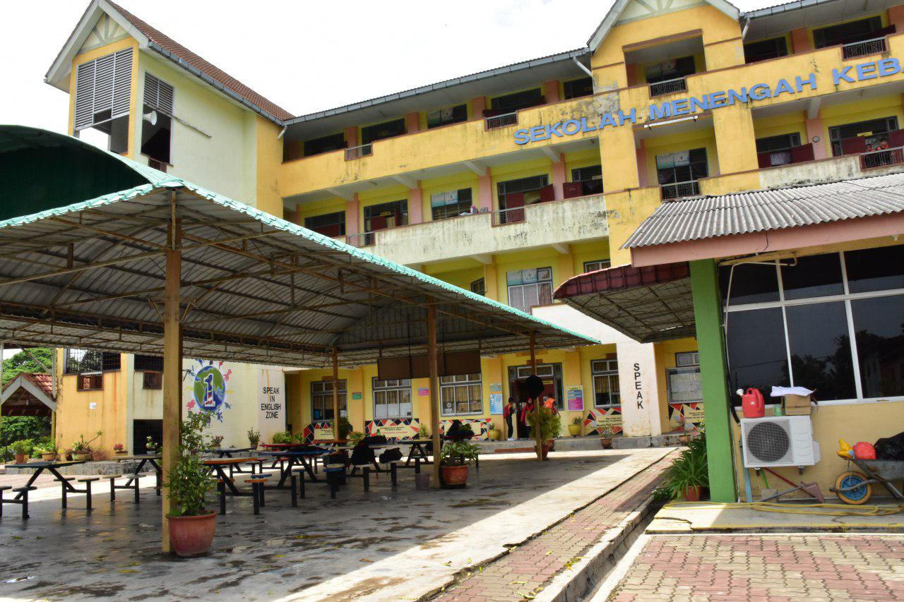 bangunan form1